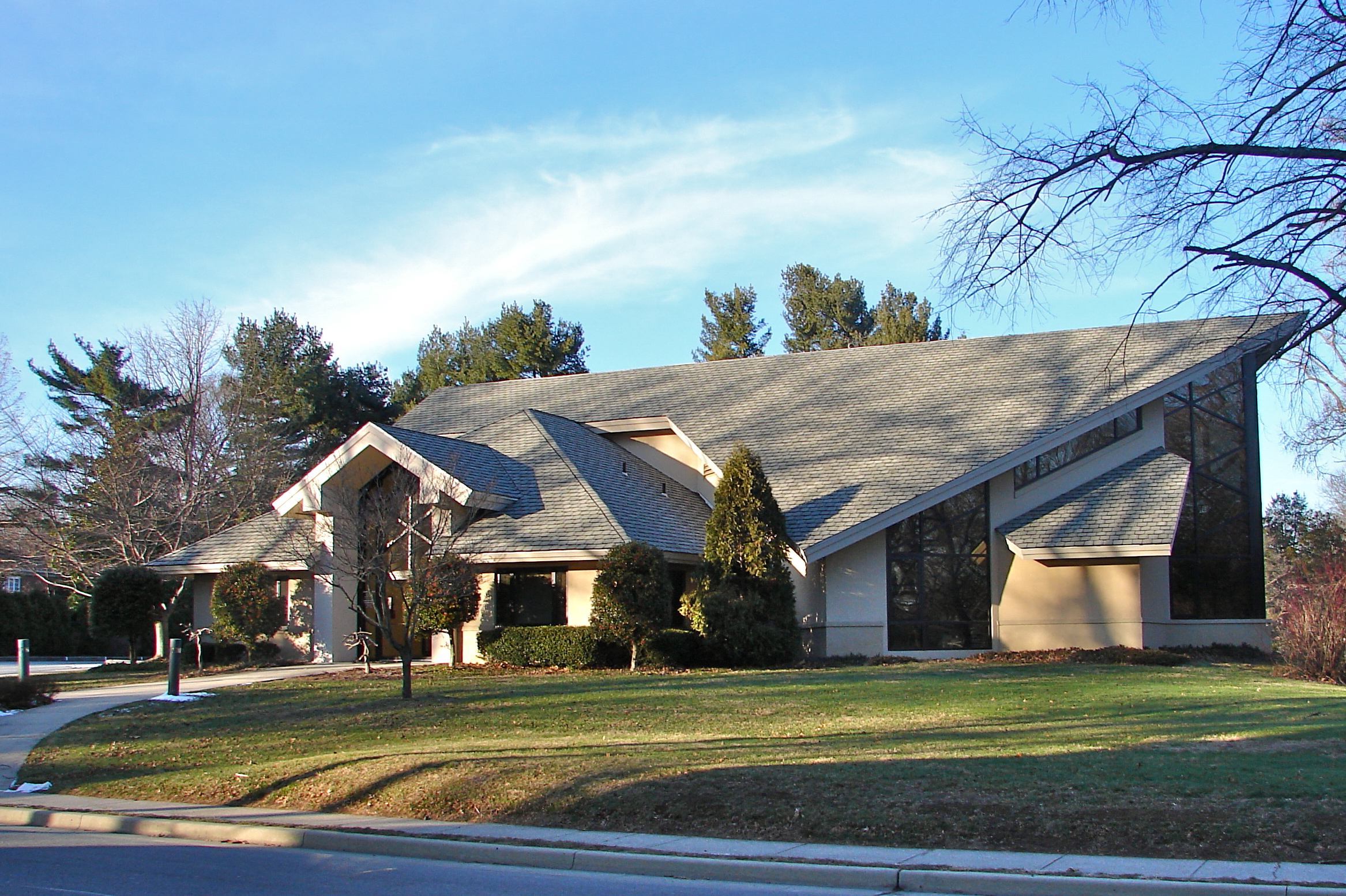 Christian Science Church in Newark, Delaware, near the University of Delaware campus. On the site of Deer Park Farm which has been on the NRHP since February 24, 1983, but is obviously now torn down. At 48 W. Park Pl., Newark